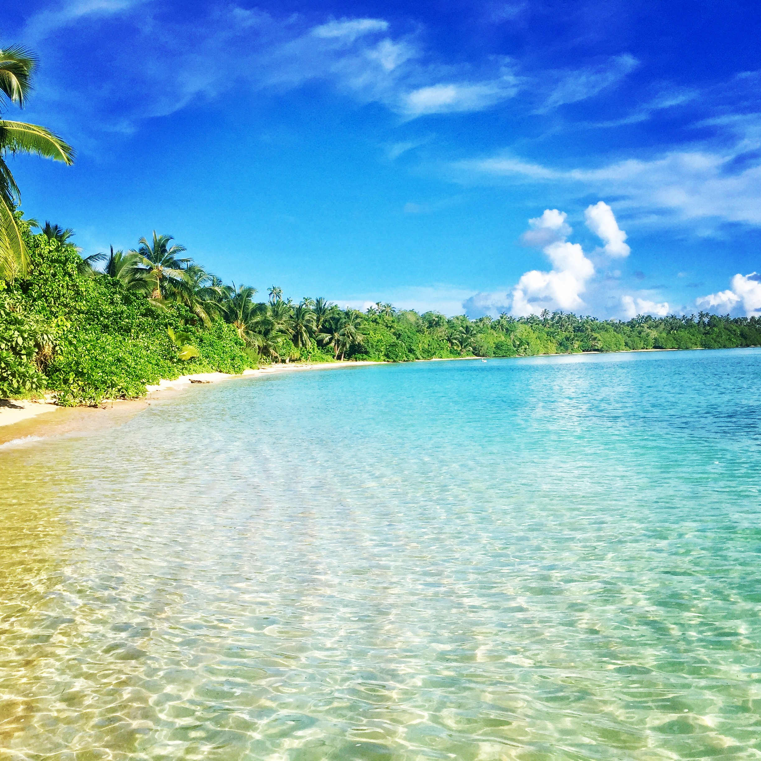 Paradis tropical, îlot de Faioa, Wallis et Futuna